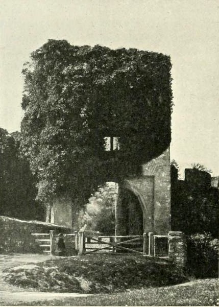 The east gatehouse, before restoration, taken around 1896